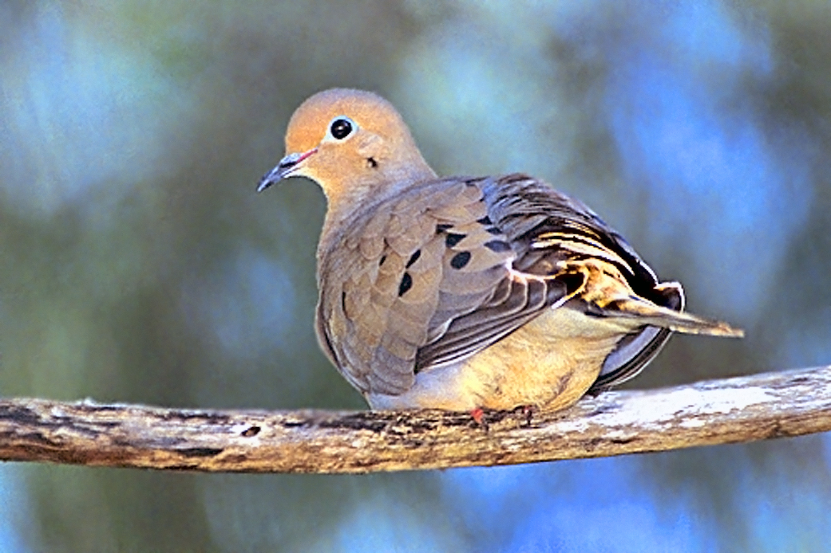 The Mourning Dove is somewhat shy and skittish at times and other times you can observe it near feeders from 12 to 14 feet away. New Mexico.